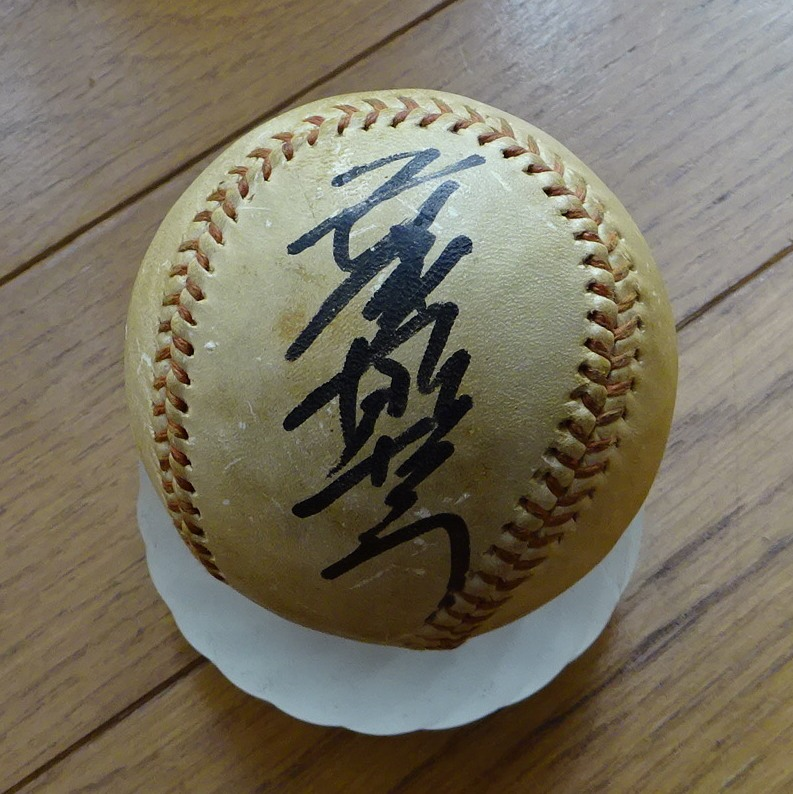 Mikio Kudo Autographed Ball